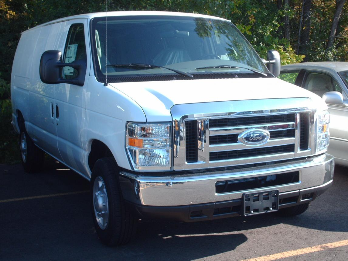 2008 Ford E-Series Van photographed in Montreal, Quebec, Canada.